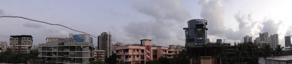 Sunder Nagar, Malad, Mumbai